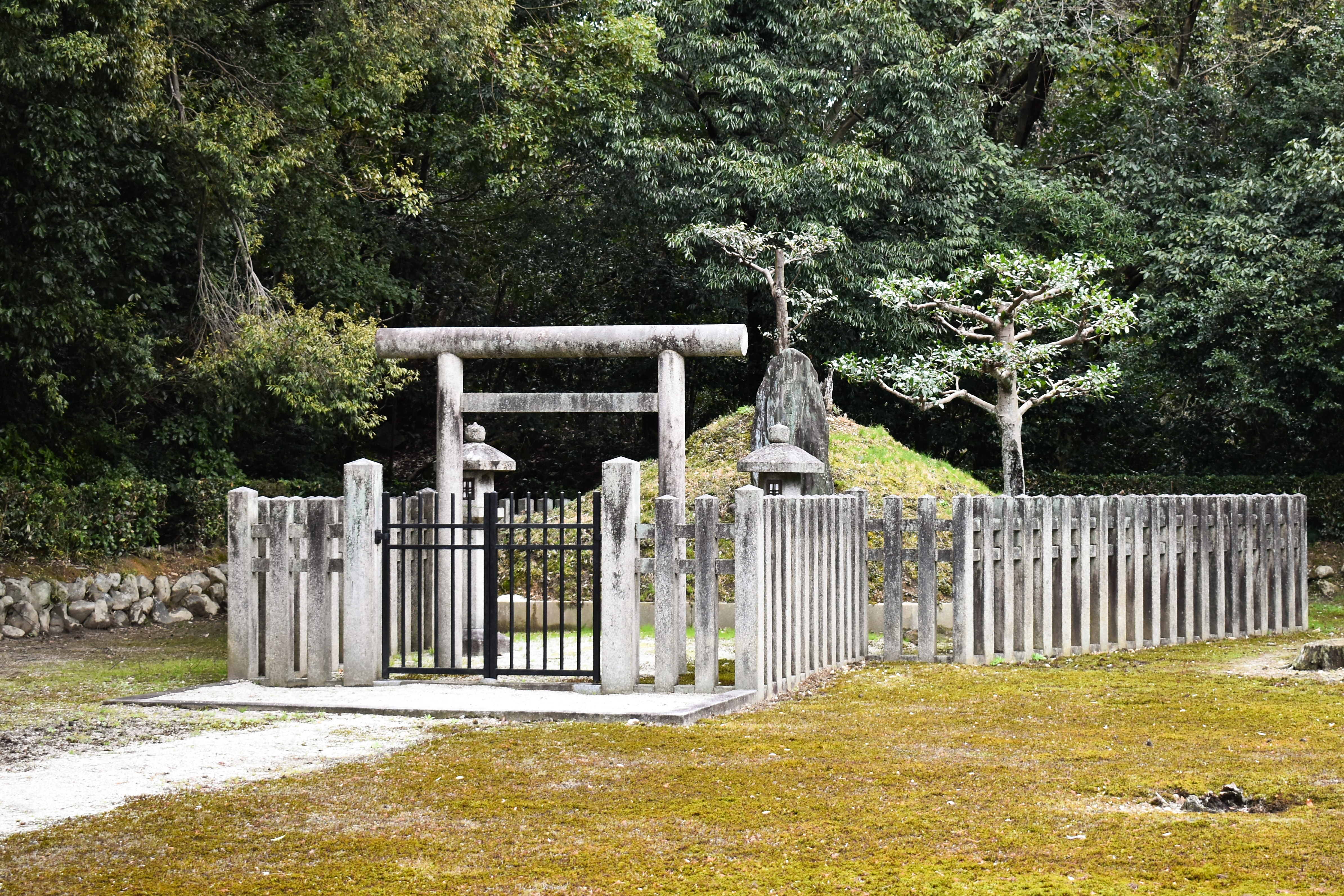 The grave of Imperial Prince Nashimotonomiya Moriosa. Located in Sennyu-ji Temple in Higashiyama Ward, Kyoto City, Kyoto Prefecture.